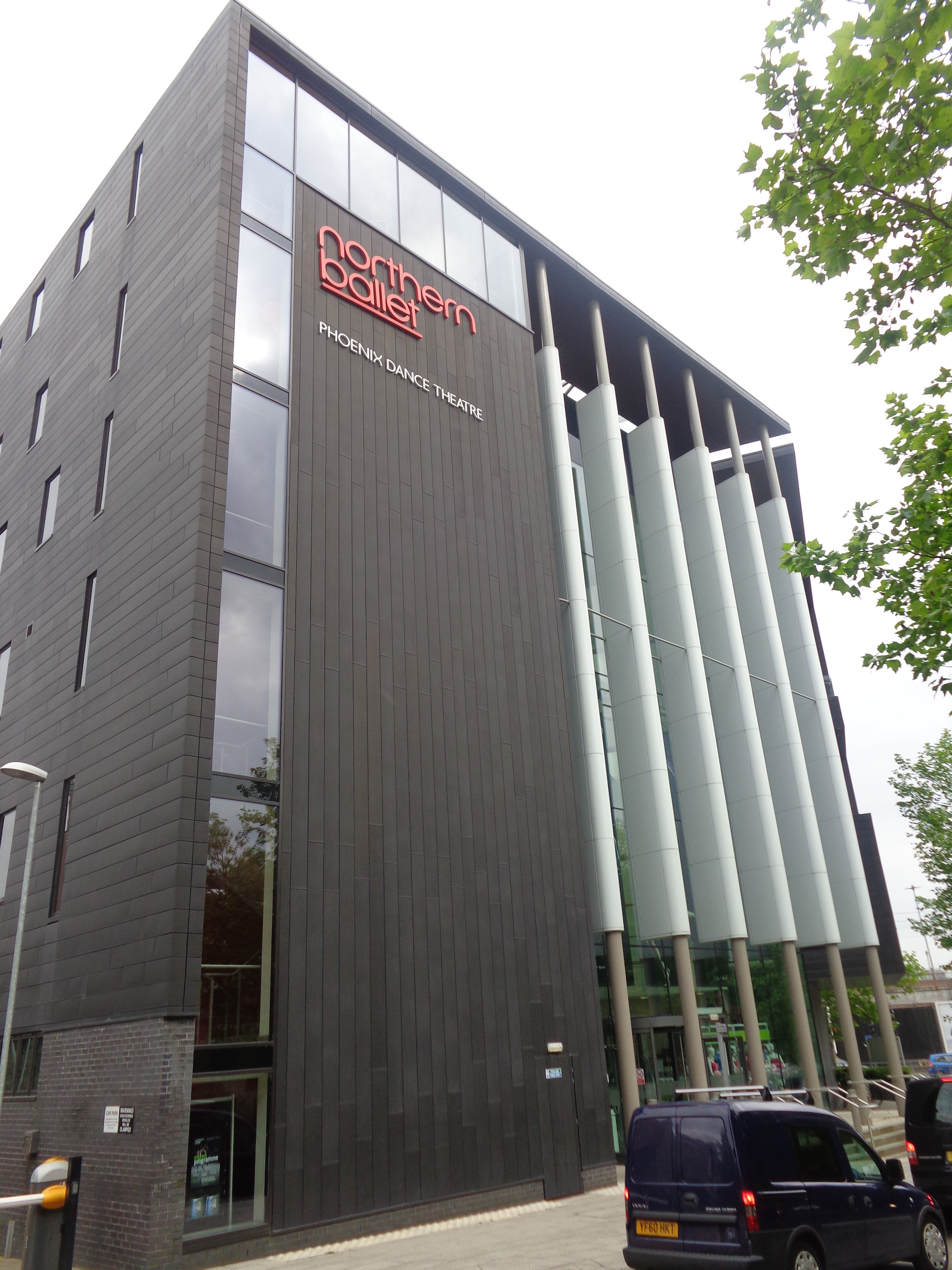 Phoenix Dance Theatre, Quarry Hill, Leeds, West Yorkshire. Taken on the afternoon of Friday the 30th of May 2014.